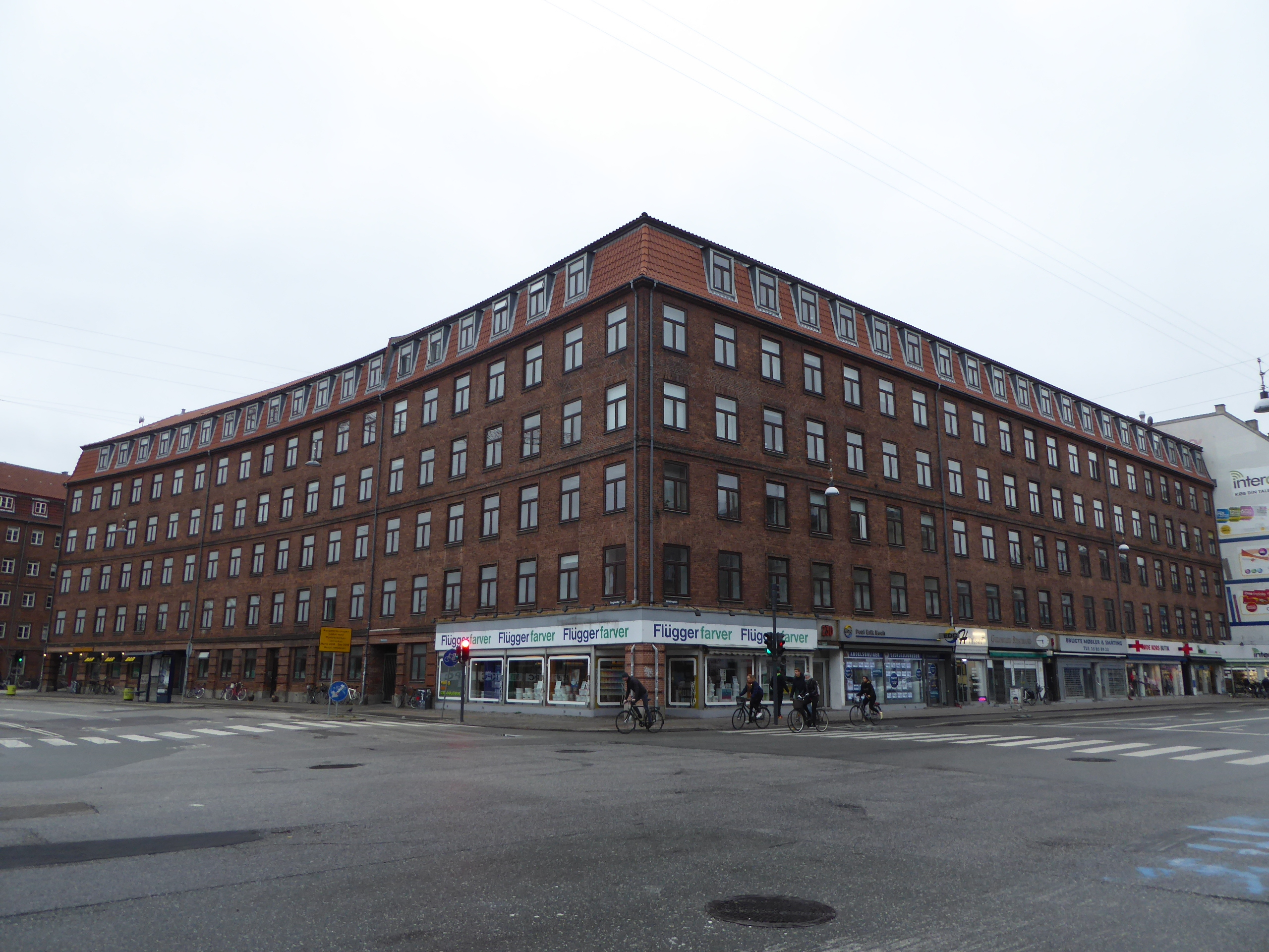 The housing cooperative Nørrebrohus at the corner of Borgmestervangen and Nørrebrogade in Nørrebro in Copenhagen. Built 1924 to a design by architects Charles I. Schou and Erik Kragh.